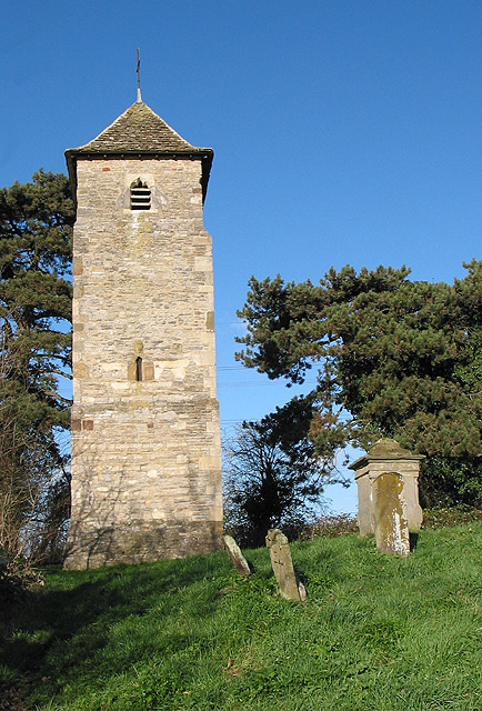 St. Oswald's Church tower, Lassington, near to Lassington, Gloucestershire, Great Britain. This looks so odd with just the tower and graveyard remaining at the end of a no through road in Lassington. The building remains consecrated and is cared for by the Churches Conservation Trust. It's shown on the map as a ruin which doesn't seem right somehow.